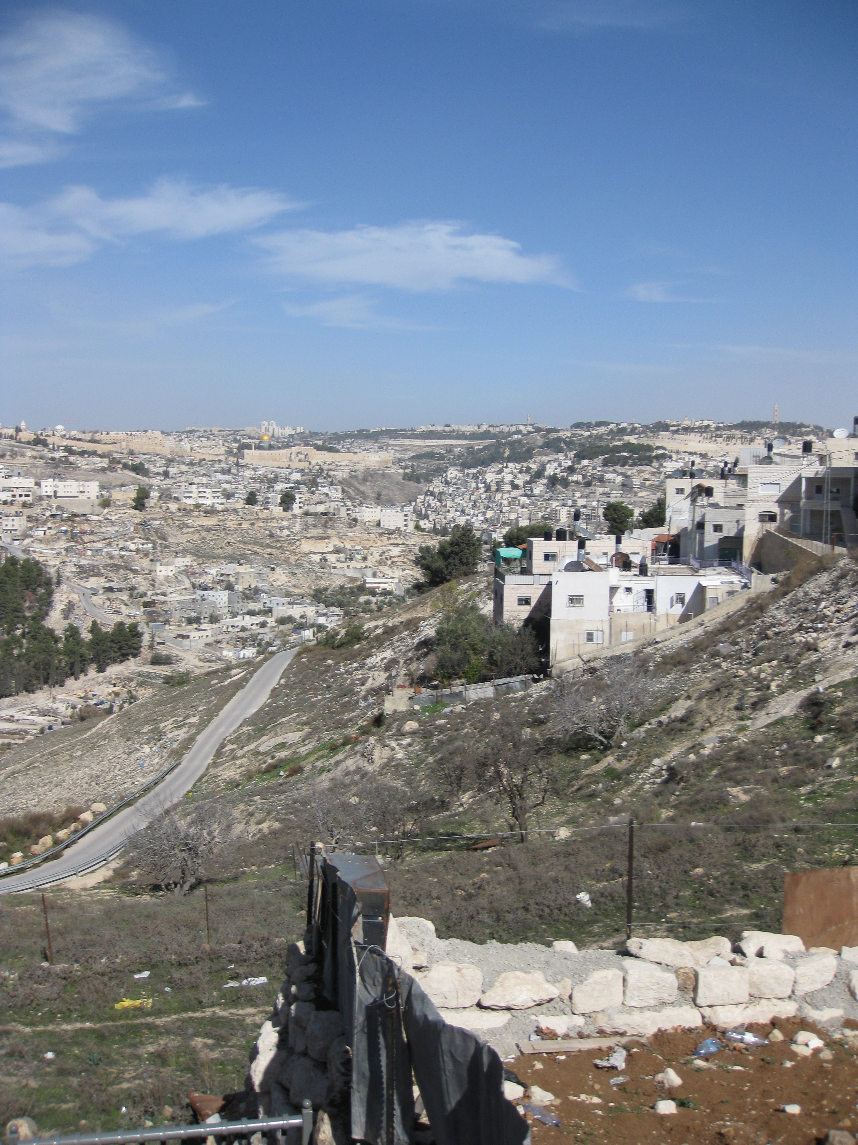 The Magical Road - view from Armon Hanatziv Promenade